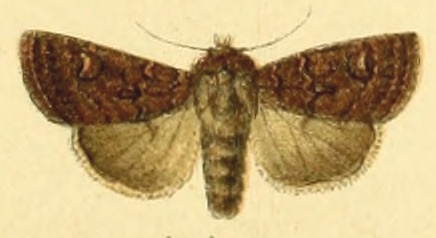 Image from Plate 6 of Die Gross-Schmetterlinge der Erde (The Macrolepidoptera of the World) Vol. 3